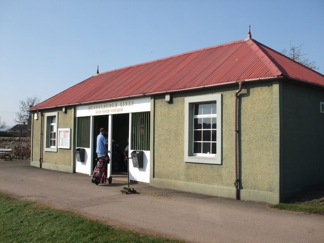 Starters Building Musselburgh Links Golf Course "Guinness World Records" claim this to be the oldest golf course in the world. The earliest recorded game was on the 2nd March 1672 but it is said Mary Queen of Scots played on the links in 1567. Six Open Championships were played here between 1874 and 1889.Further claims to fame are that the standard hole cutter of 4¼ inches diameter was first used here as was the club the 'Brassie'. This devised to play from a hard road surface. The 2nd hole is known as 'The Graves' since this is where the dead from the Battle of Pinkie (1548) were buried. A 9 hole course it is surrounded by Musselburgh Race Course.